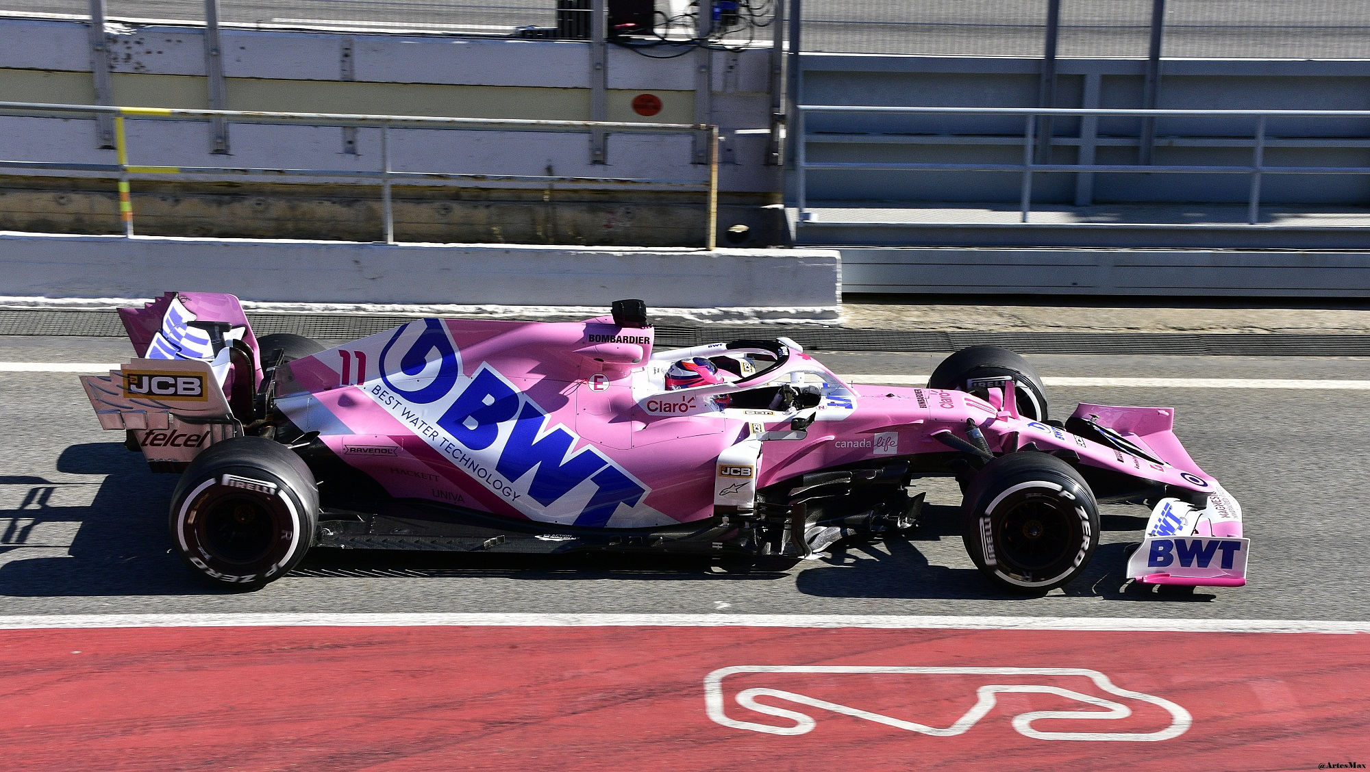 Formula 1 Pre-Season Testing 2020 / Circuit de Barcelona / Racing Point RP20 / Sergio Pérez / MEX / BWT Racing Point F1 Team